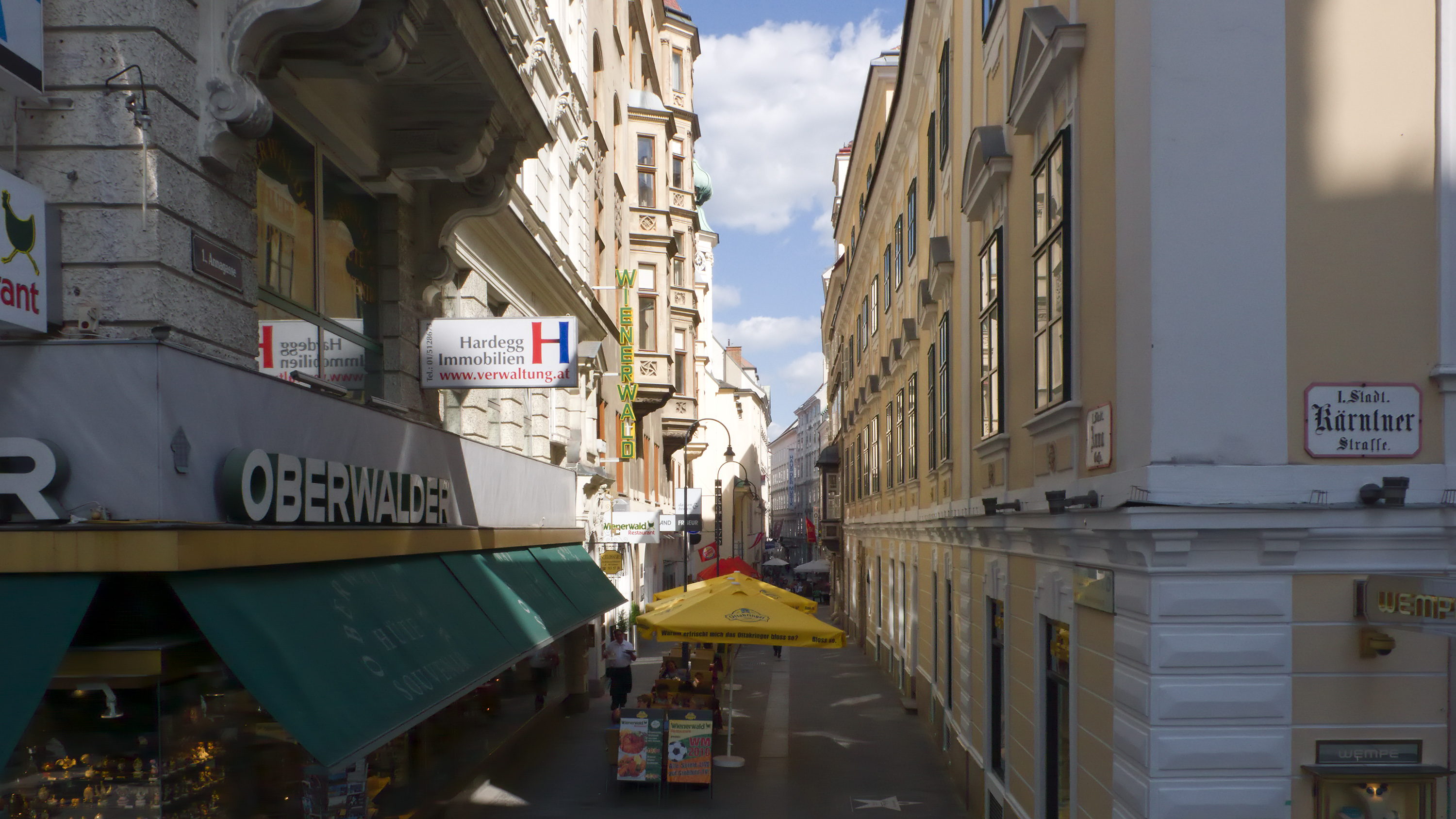 Annagasse in Vienna Inner City, Haus Nr.1, Kreuzung mit der Kärntner Straße